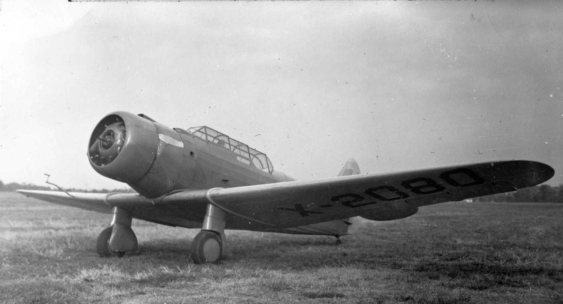 North American NA-16 prototype NX2080